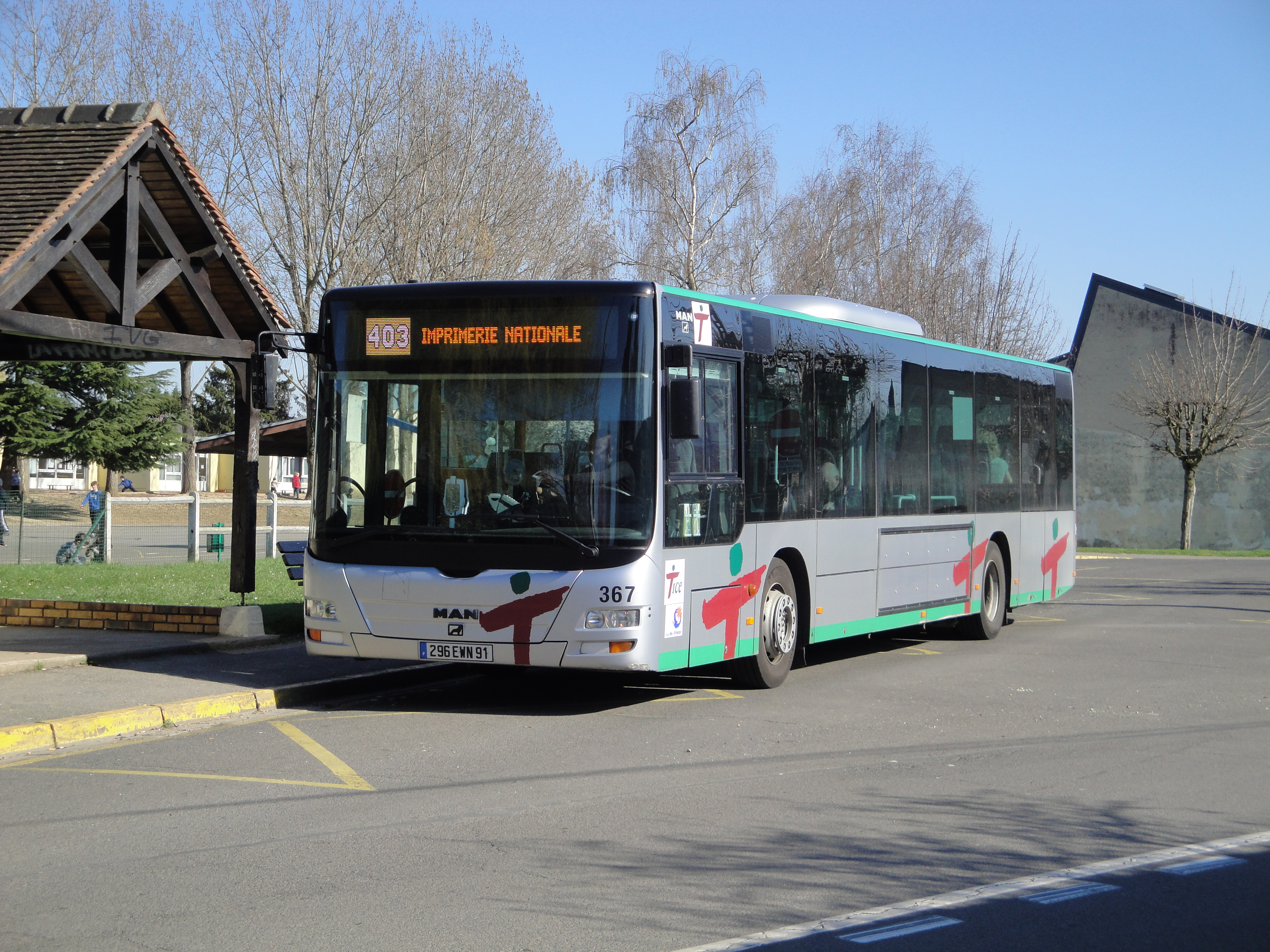 Man Lion's City at Soisy sur Seine. Line TICE 403